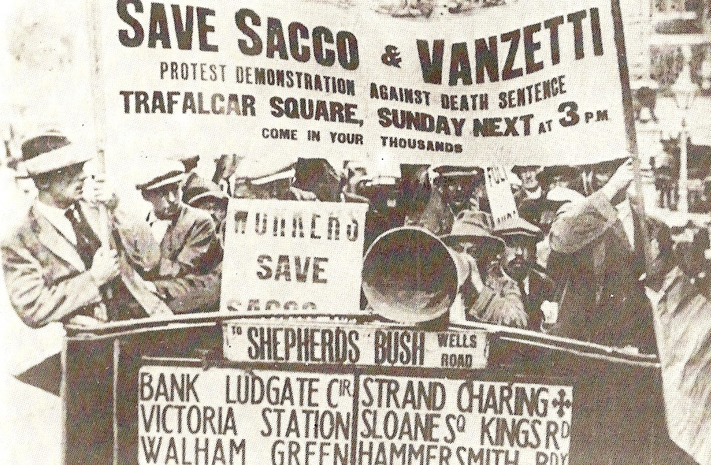 Protest to save Sacco and Vanzetti in London, England in 1921.